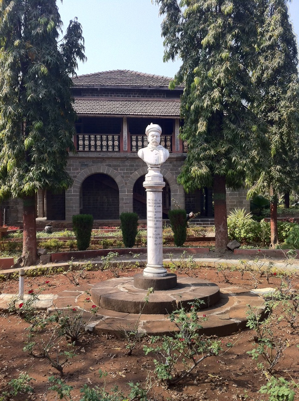 Fergusson College Gokhale Institute Statue1